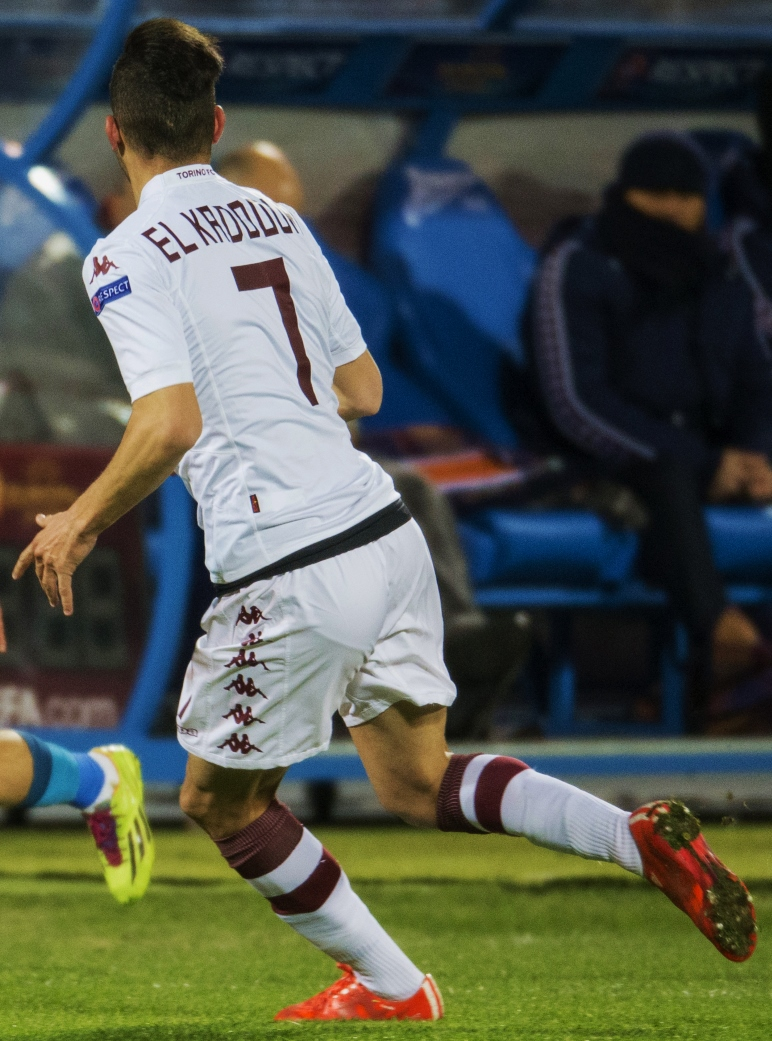 12.03.2015. Ðîññèÿ, Ñàíêò-Ïåòåðáóðã, ñòàäèîí «Ïåòðîâñêèé». Ëèãà Åâðîïû ÓÅÔÀ, 1/8 ôèíàëà, «Çåíèò» — «Òîðèíî». Íà ñíèìêå â ñèíåé ôîðìå: Èãîðü Ñìîëüíèêîâ, çàùèòíèê ÔÊ «Çåíèò».